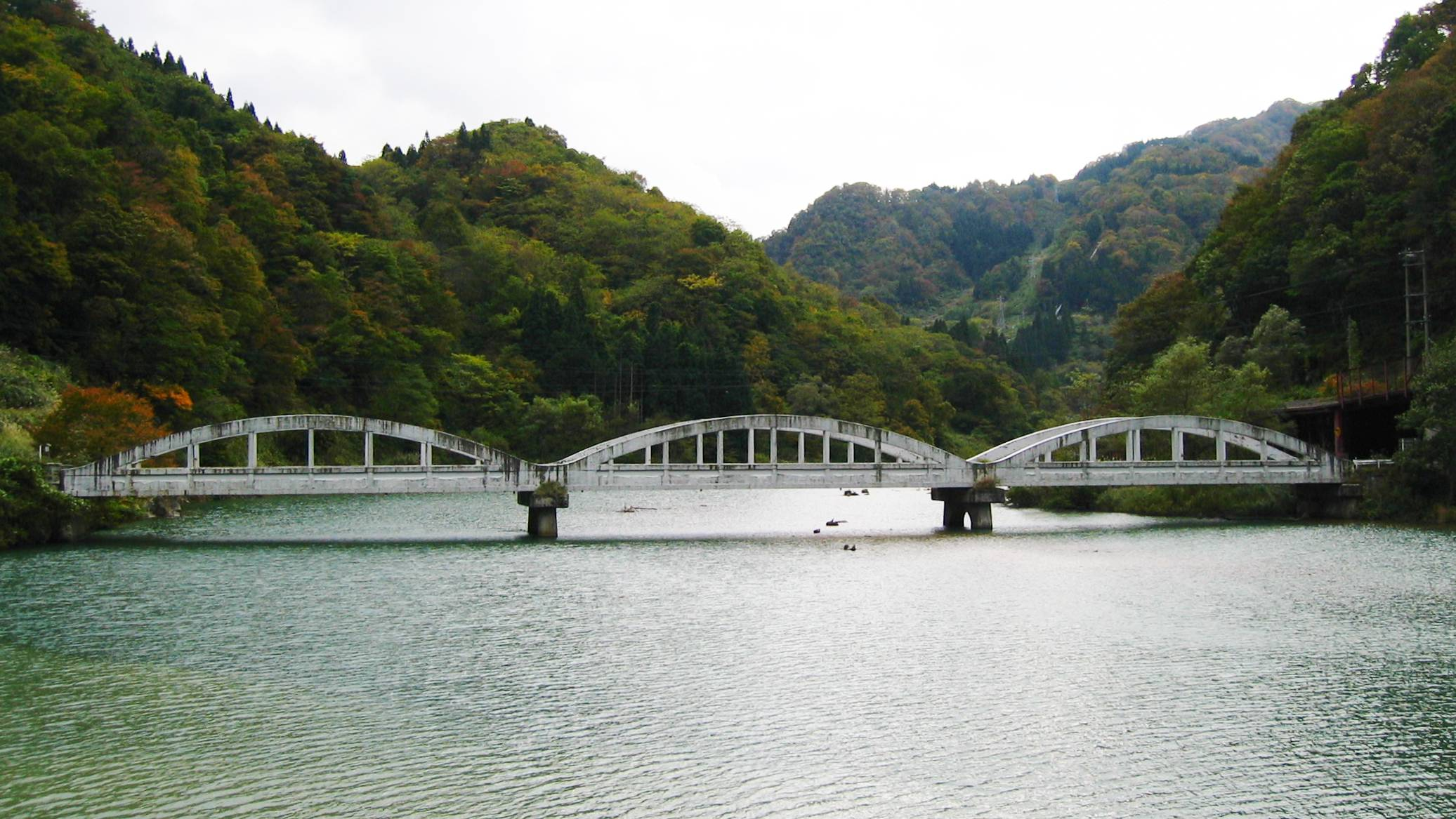 Himekawa Bridge (Otari, Nagano).